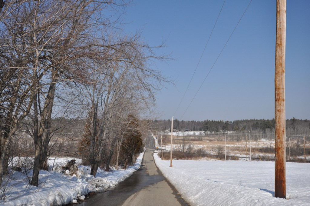 Looking north at New Hampshire Route 150, as seen from Shaw Hill Road in Kensington, NH.